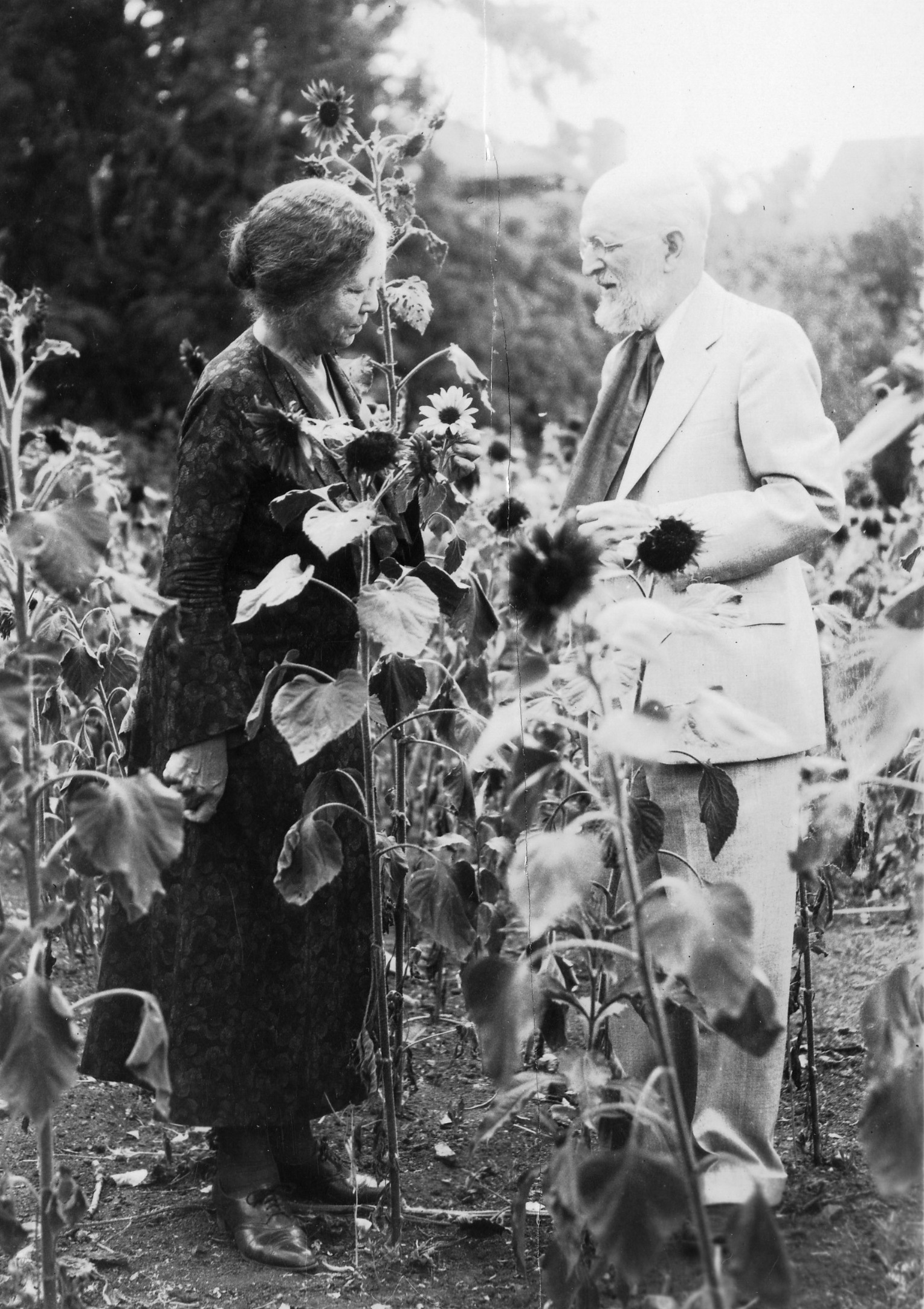 Description: In this 1935 photograph, botanist Wilmatte Porter Cockerell (1871-1957) is shown with biologist Theodore Dru Alison Cockerell (1866-1948), whom she married in 1900. In 1901, he named the ultramarine blue chromodorid Mexichromis porterae in her honor. Before and after their marriage in 1900, they frequently went on collecting expeditions together and assembled a large private library of natural history films, which they showed to schoolchildren and public audiences to promote the cause of environmental conservation. Creator/Photographer: Unidentified photographer Medium: Black and white photographic print Date: 1935 Persistent URL: [1] Repository: Smithsonian Institution Archives Collection: Science Service Records, 1902-1965 (Record Unit 7091) - Science Service, now the Society for Science & the Public, was a news organization founded in 1921 to promote the dissemination of scientific and technical information. Although initially intended as a news service, Science Service produced an extensive array of news features, radio programs, motion pictures, phonograph records, and demonstration kits and it also engaged in various educational, translation, and research activities. Accession number: SIA2008-1019